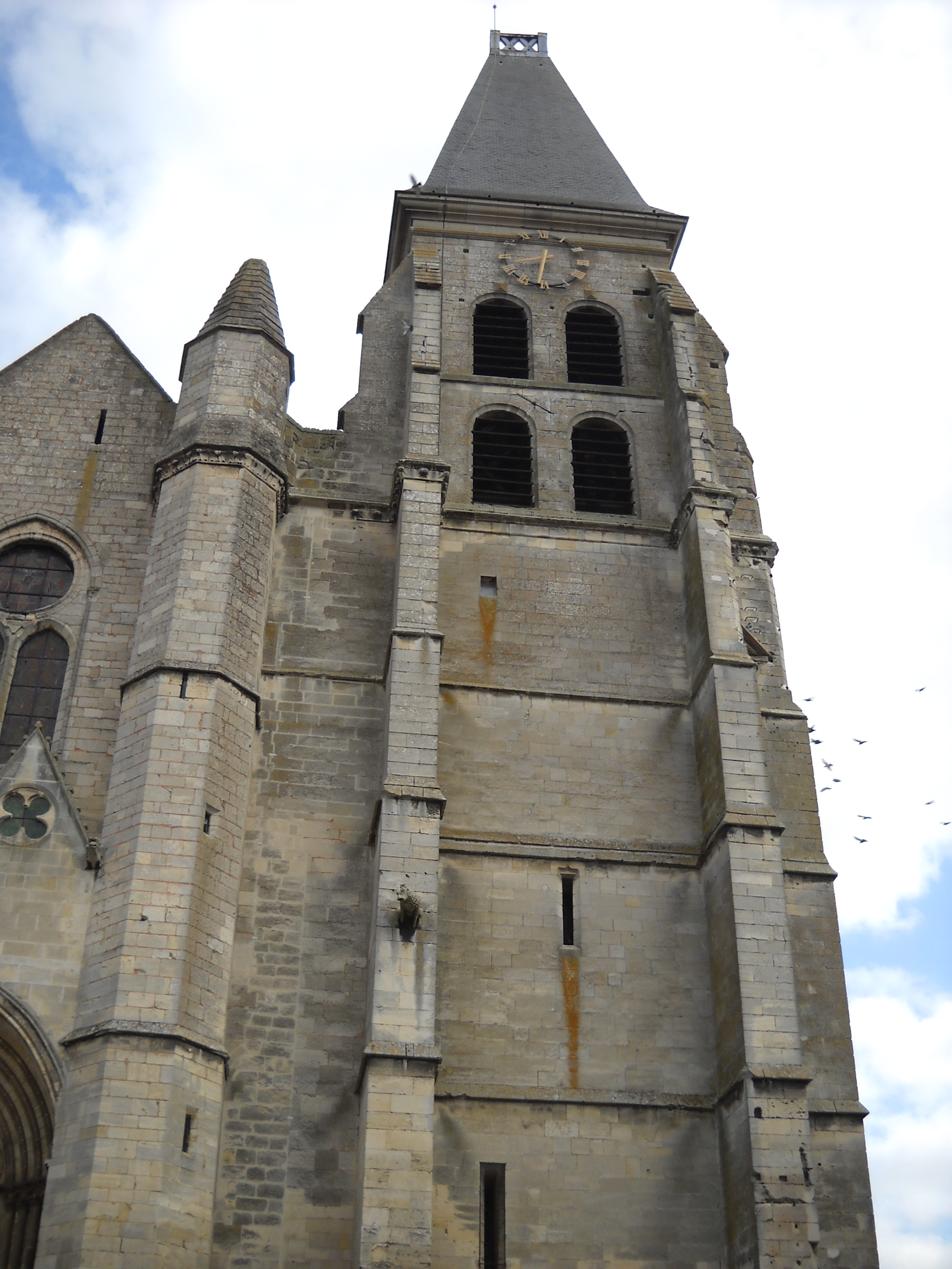 St. Samson's church, in Clermont, Oise, France.